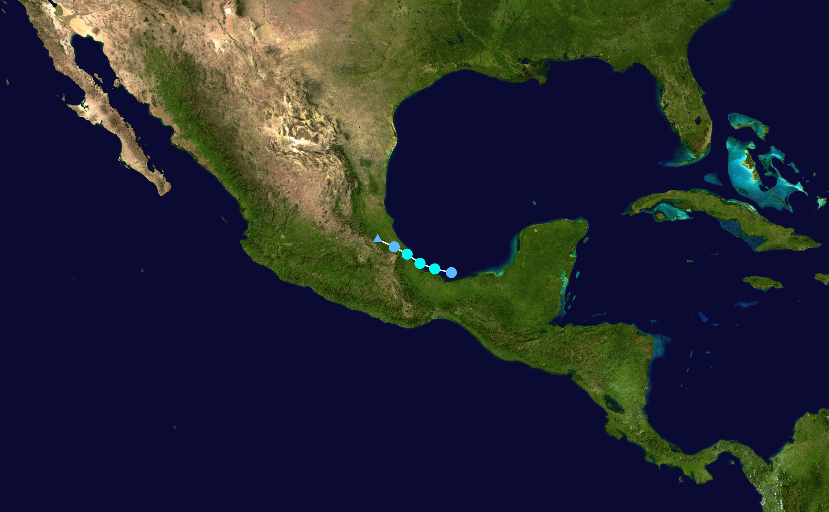 Track map of Tropical Storm Fernand of the 2013 Atlantic hurricane season. The points show the location of the storm at 6-hour intervals. The colour represents the storm's maximum sustained wind speeds as classified in the Saffir–Simpson scale (see below), and the shape of the data points represent the nature of the storm, according to the legend below. Saffir–Simpson scale Tropical depression≤38 mph≤62 km/h Category 3111–129 mph178–208 km/h Tropical storm39–73 mph63–118 km/h Category 4130–156 mph209–251 km/h Category 174–95 mph119–153 km/h Category 5≥157 mph≥252 km/h Category 296–110 mph154–177 km/h Unknown Storm type Tropical cyclone Subtropical cyclone Extratropical cyclone / Remnant low / Tropical disturbance / Monsoon depression